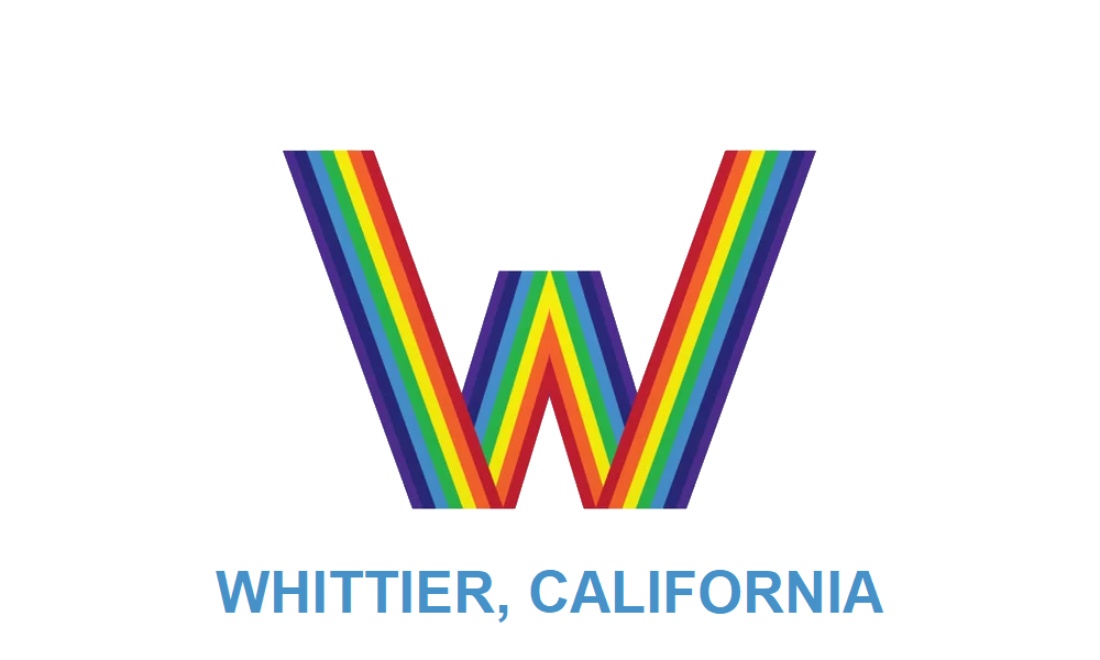 Flag of Whittier, California.